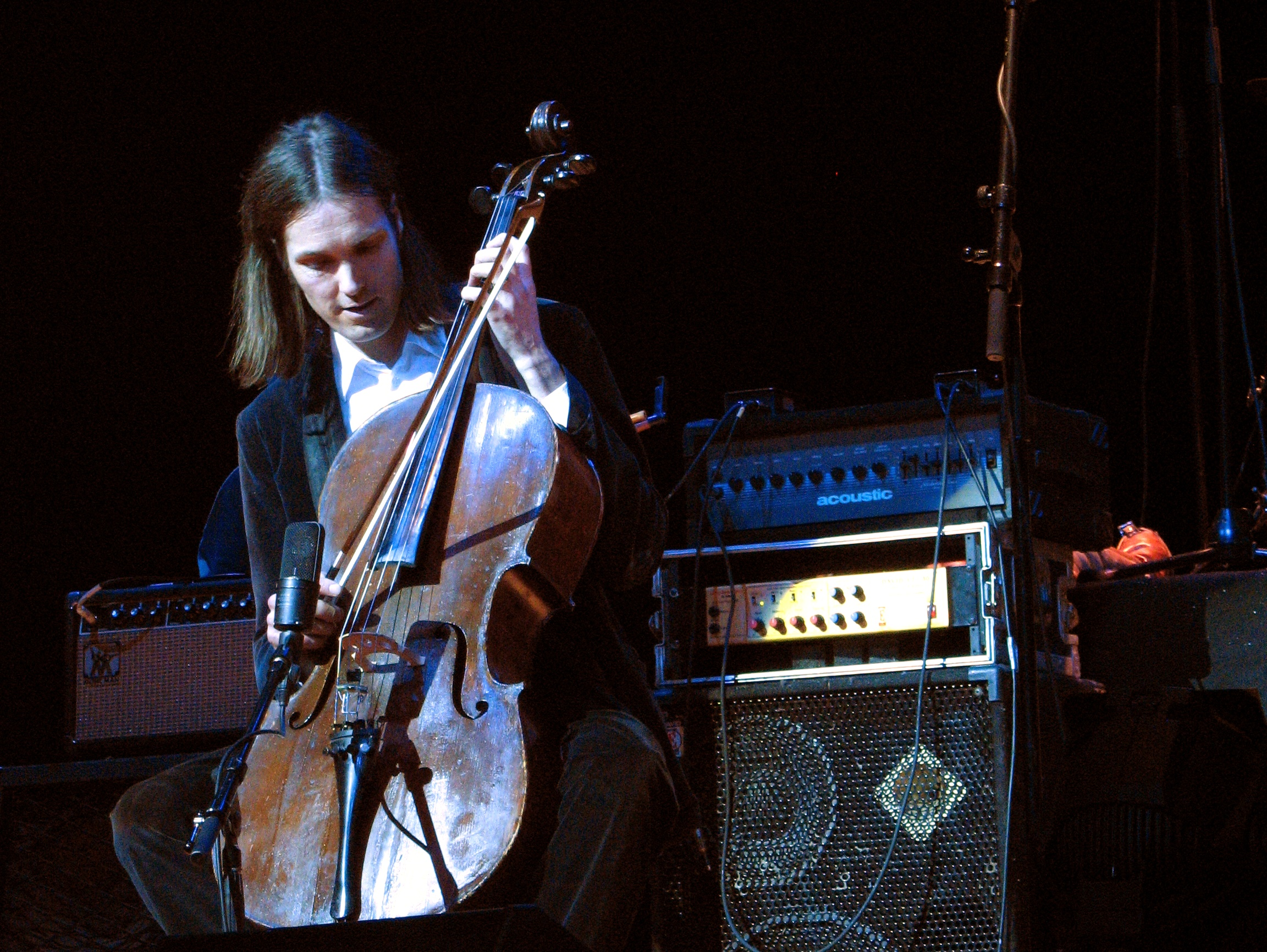 Don Kerr performing with the Rheostatics at Massey Hall in Toronto, Ontario, Canada